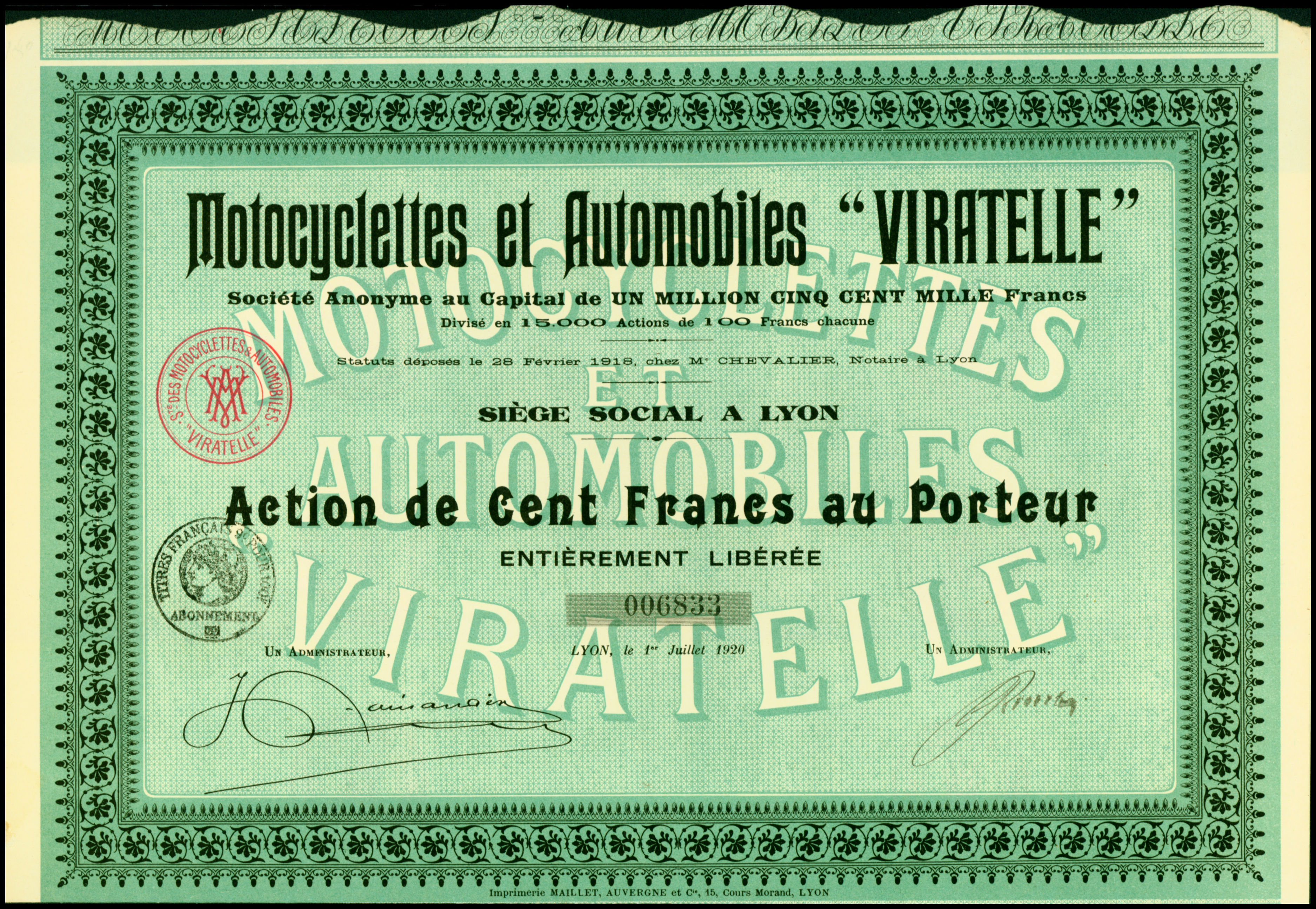 Share of the Société Anonyme des Motocyclettes et Automobiles Viratelle, issued 1. July 1920